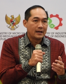 M. Lutfi in Press Conference Trade Expo